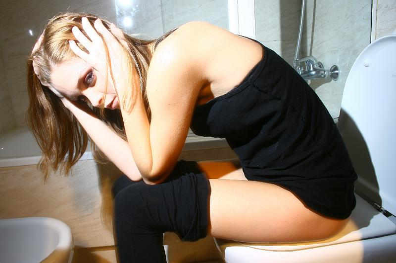 Blonde woman sitting on a toilet.